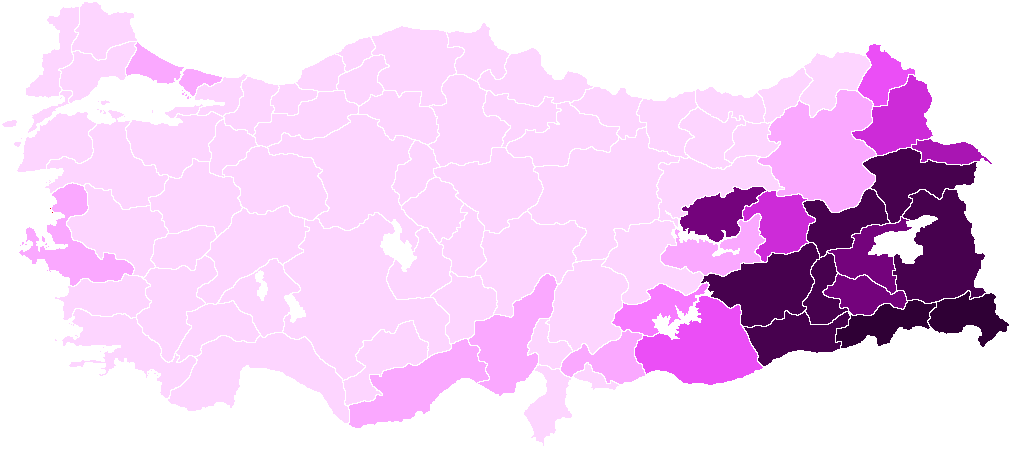 Vote shares obtained by the HDP in the Turkish general election of 2015